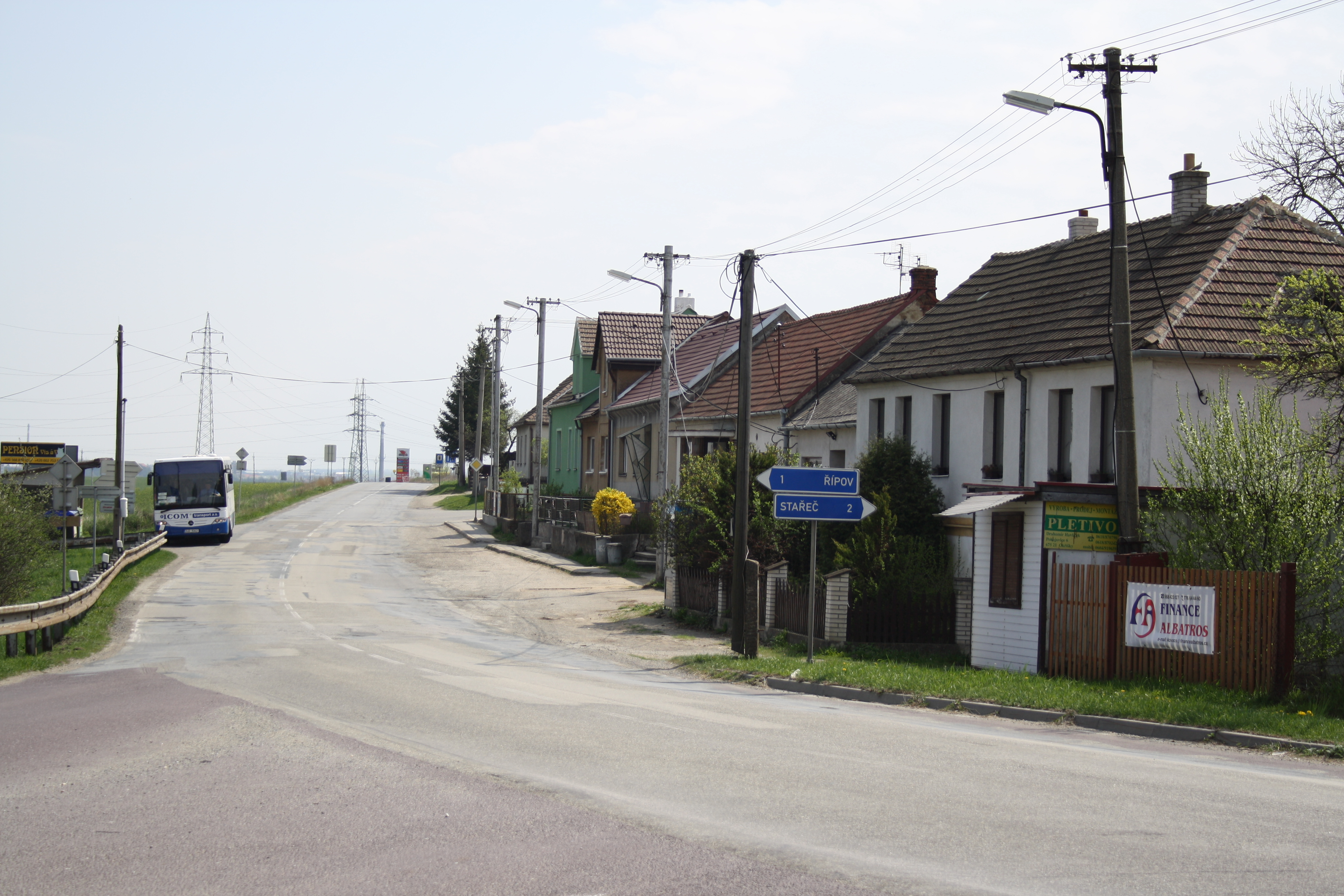 Červená hospoda bus station, road and houses.